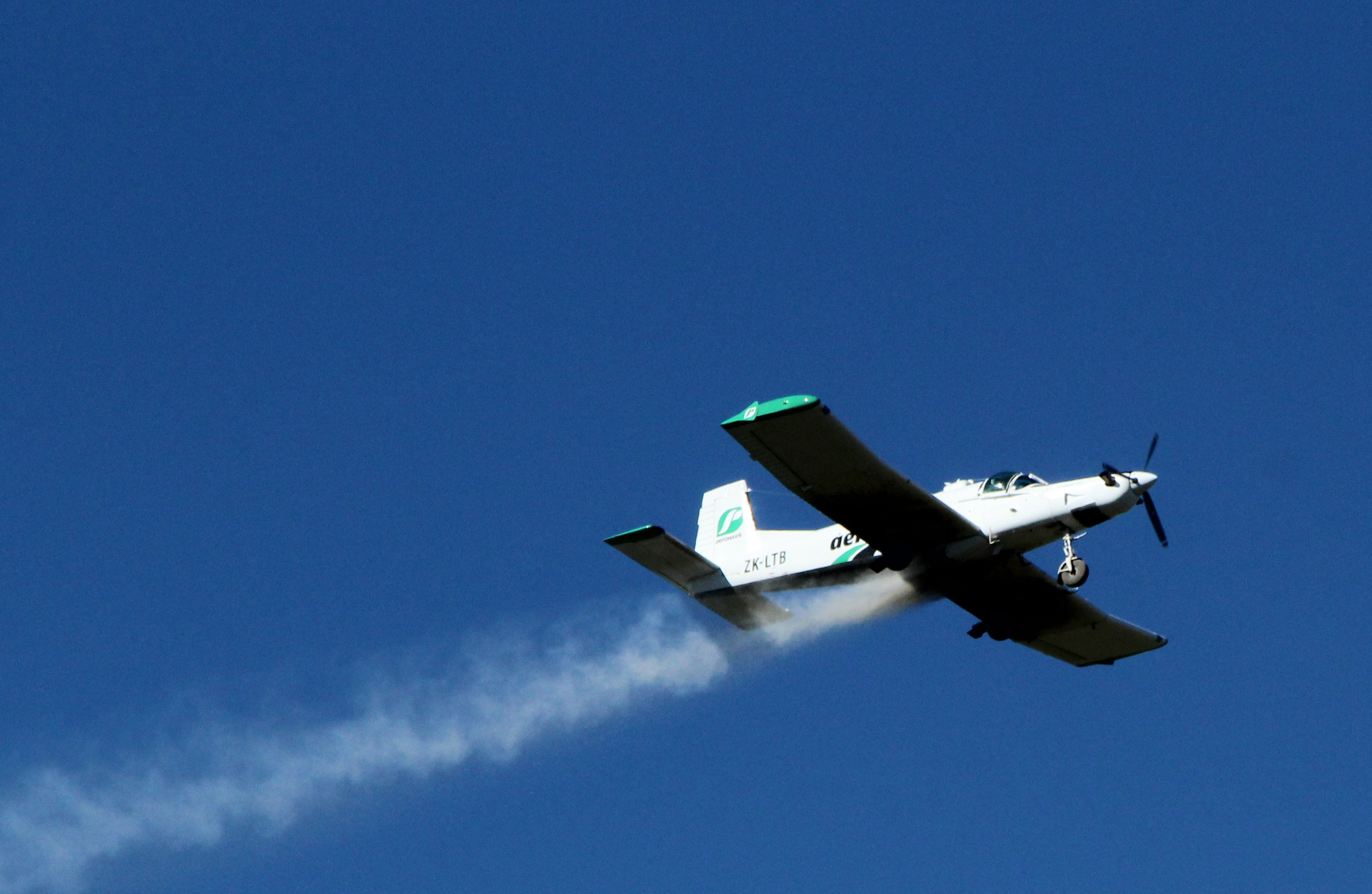 A PAC Cresco aircraft working in hilly terrain. The fertilizer is being discharged from between the wings.